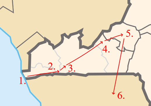 Diagram of major actions in Operation Kitona numbers mark key events as follows. 1. Kitona Airbase and major port cities are captured by Rwandan, Ugandan and ex-FAC forces, August 4-5, 1998. 2. Capture of Matadi, the DRC's largest seaport, August 10, 1998. 3. Capture of the Inga Dams, which supply power to most of western Congo, August 13 1998. 4. Rwandan attempts to capture Kasangulu are stopped twice by Zimbabwean Air Force and Commando units, once on the 11th, and once on the 24th, the second engagement destroying most of the Rwandan's armor. 5. Battle for N'Djili Airport, base of the Zimbabwean forces in the DRC, August 25-30th 6. Rwandan retreat to Maquela do Zombo in Angola, troops would remain until finally evacuated December 24th, 1998.